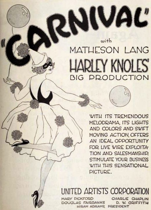 American advertisement for the British drama film Carnival (1921), on page 13 of the July 9, 1921 Exhibitors Herald. The ad consists of a drawing and has no stills from the film.